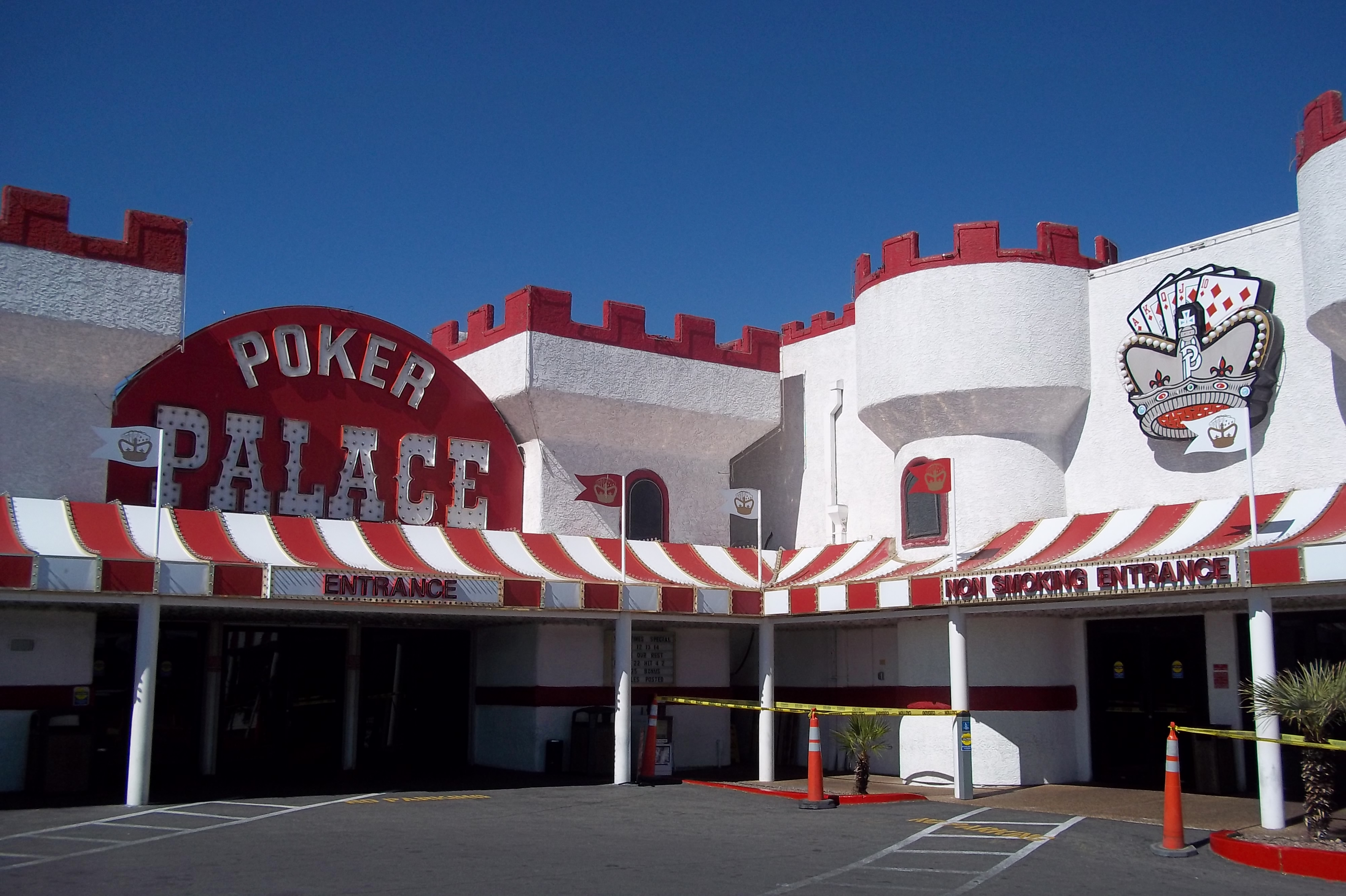 Entrance to the Poker Palace casino in North Las Vegas.